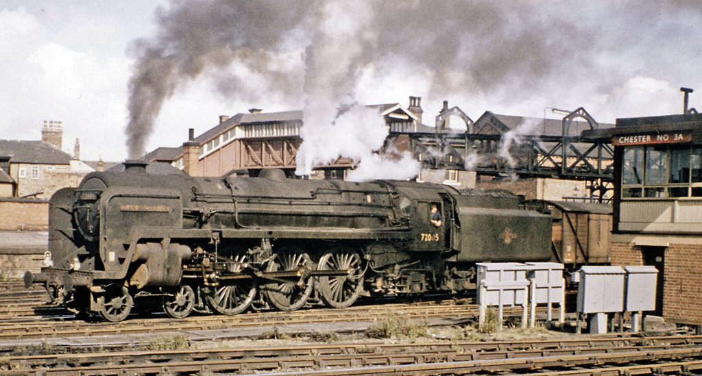 Chester General, unusual locomotive by Chester 3A Box, near to Hoole, Cheshire, Great Britain. View NE, with a Down freight headed by BR Clan class 6 4-6-2s, No. 72005 'Clan Macgregor', one of a small class which normally worked in Scotland.